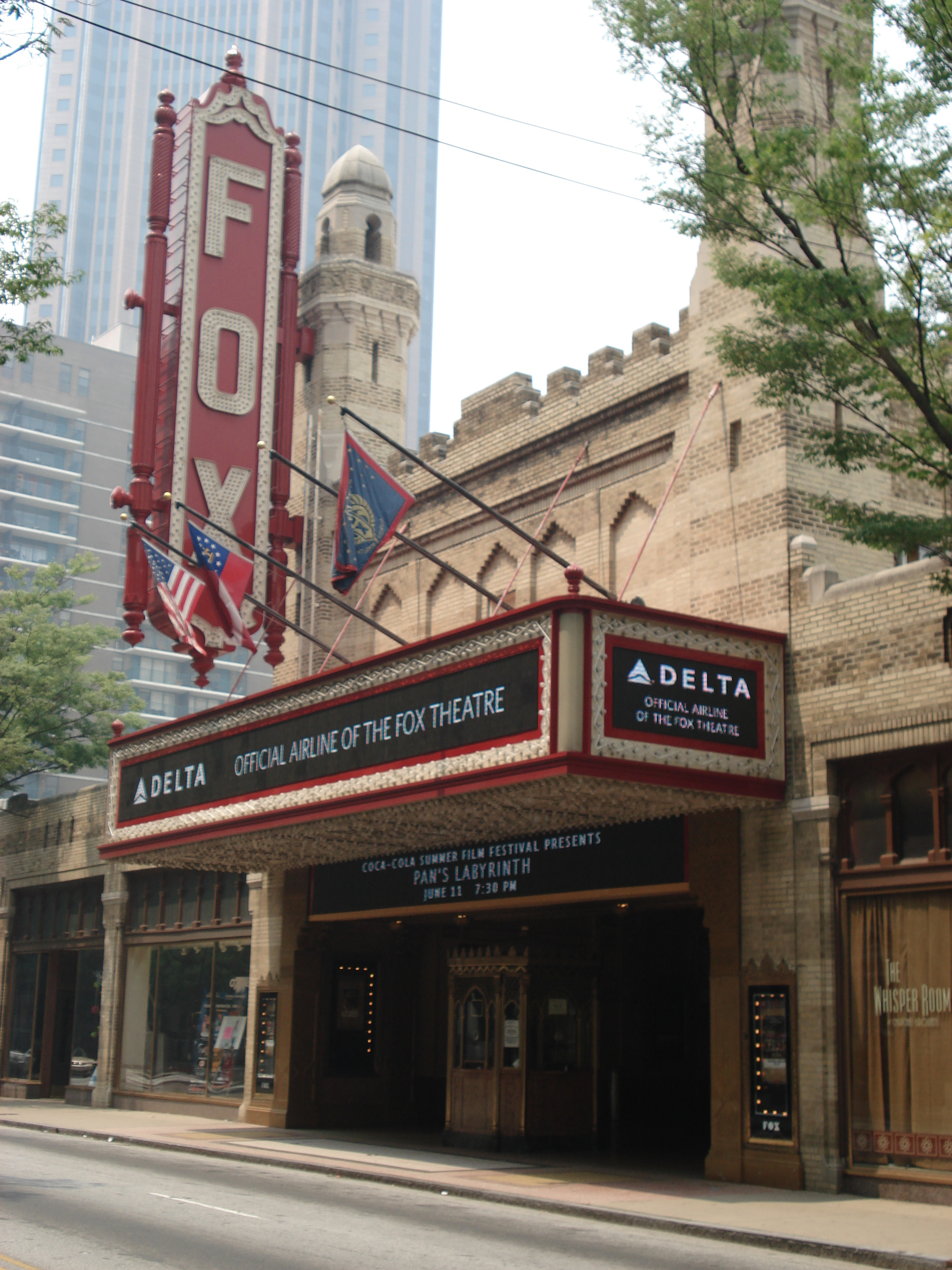 I took this photo myself.